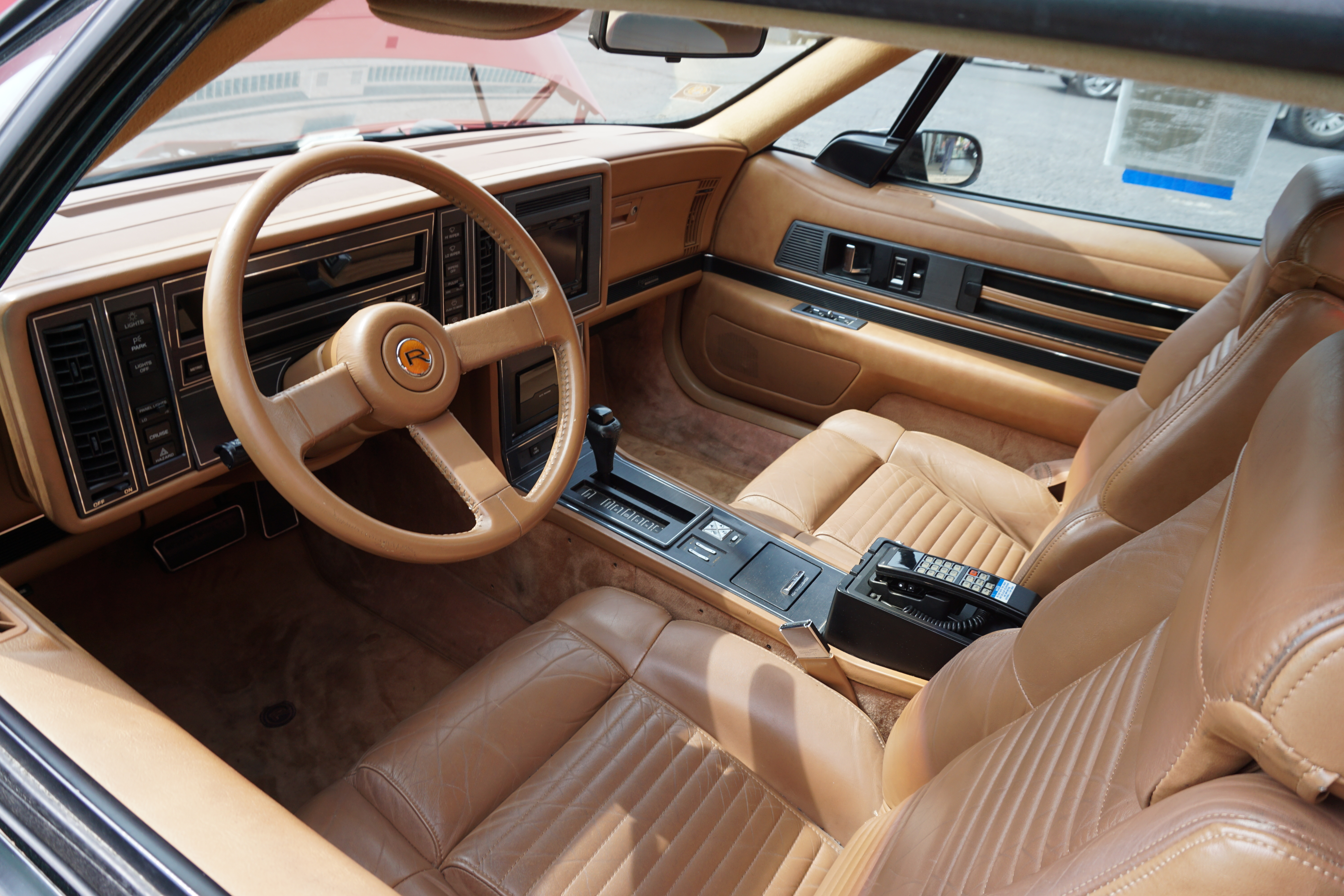 The interior of a 1989 Buick Reatta at the 2016 Northeast Texas Buick and Classic Car Show at Commerce Chevrolet Buick in Commerce, Texas (United States).